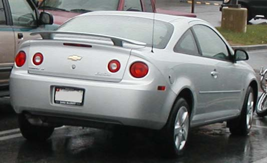 2005-2007 Chevrolet Cobalt coupe photographed in USA.